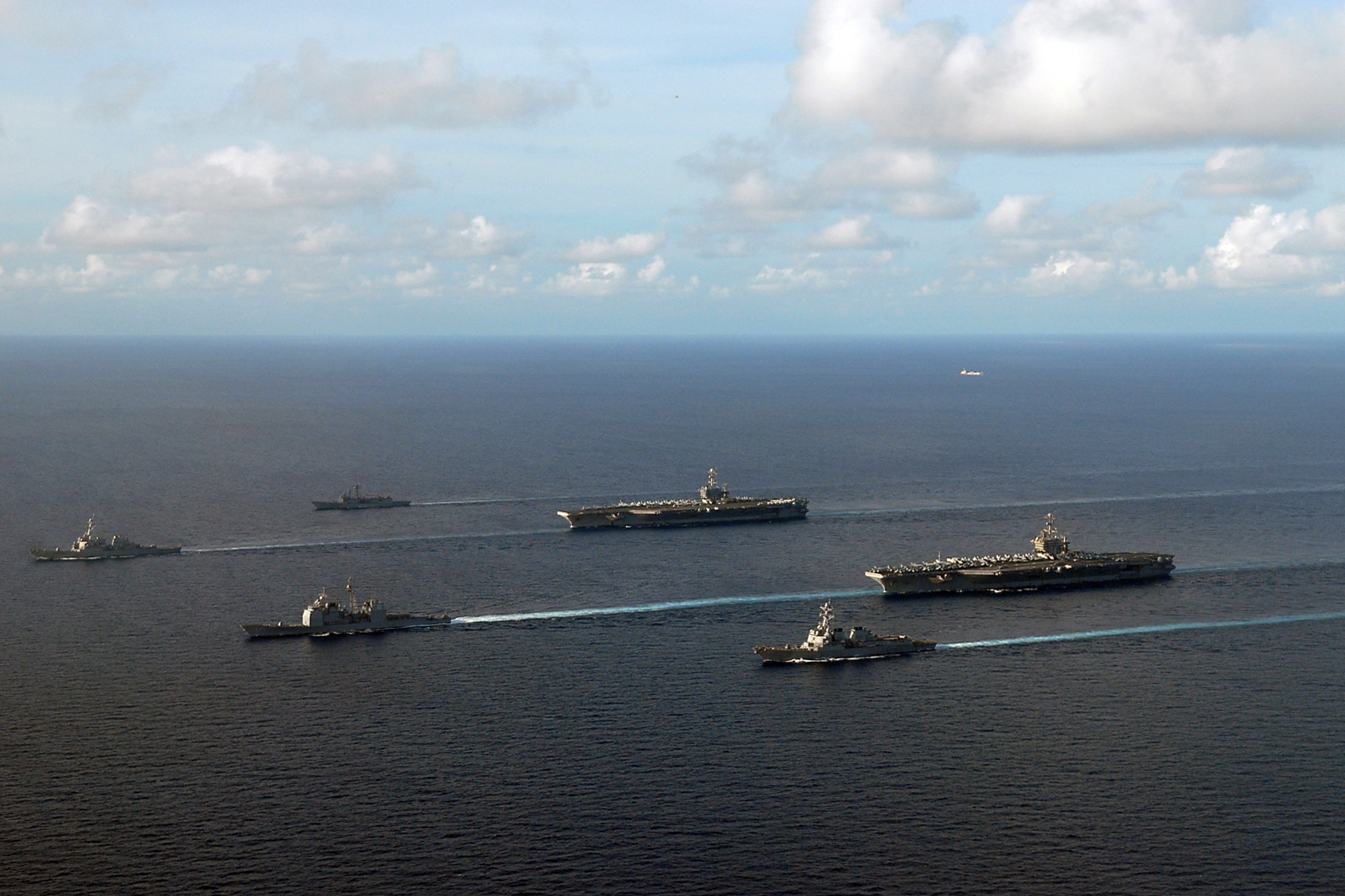 The Nimitz-class aircraft carriers USS George Washington (CVN 73), USS John C. Stennis (CVN 74), the guided-missile cruiser USS Mobile Bay (CG 53), the guided-missile destroyers USS McCampbell (DDG 85) and USS Paul Hamilton (DDG 60) and the guided-missile frigate USS Vandegrift (FFG 48) steam together in formation in the Andaman Sea. Ships and aircraft of the George Washington and John C. Stennis carrier strike groups are currently exercising to hone their collective interoperability, readiness, and the capability to respond quickly to various potential crises in the region, ranging from combat operations to humanitarian assistance. As two of the Navy’s 11 global force carrier strike groups, the strike groups are further ensuring security, stability and peace in the vital Asian-Pacific region.